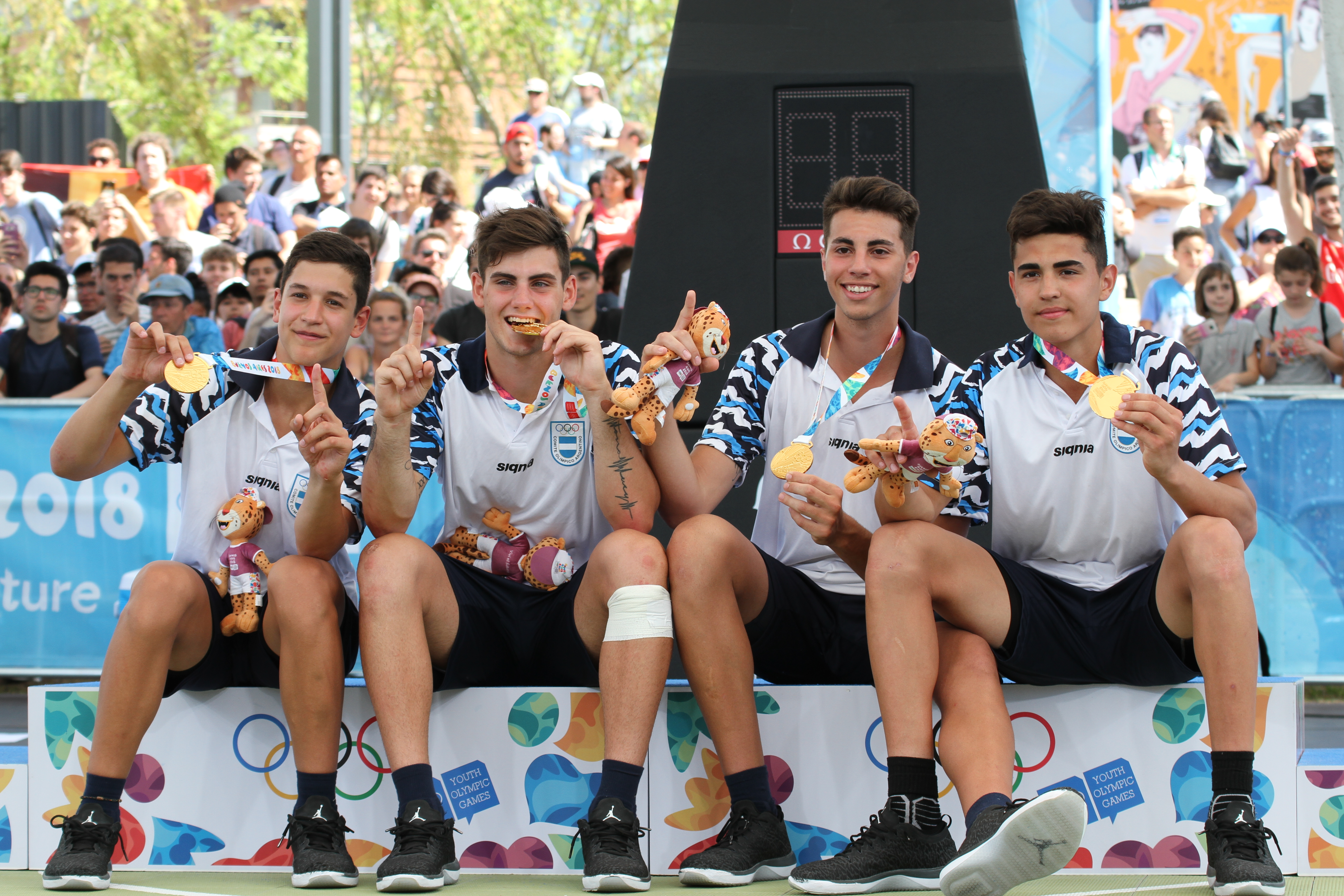 Victory ceremony of the mens 3x3 basketball tournament of the 2018 Summer Youth Olympics.